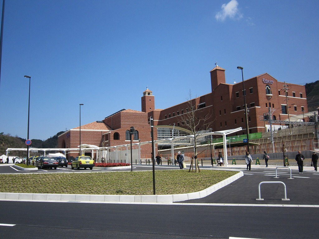 West side of Wakayama-Daigaku-mae Station on the Nankai Main Line